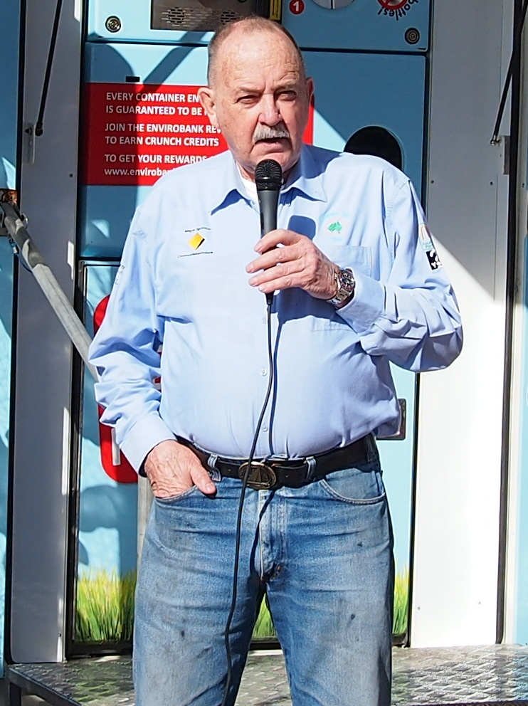 Ian Kiernan speaking at a Greenpeace-sponsored event to promote container deposit legislation at Manly in July 2013